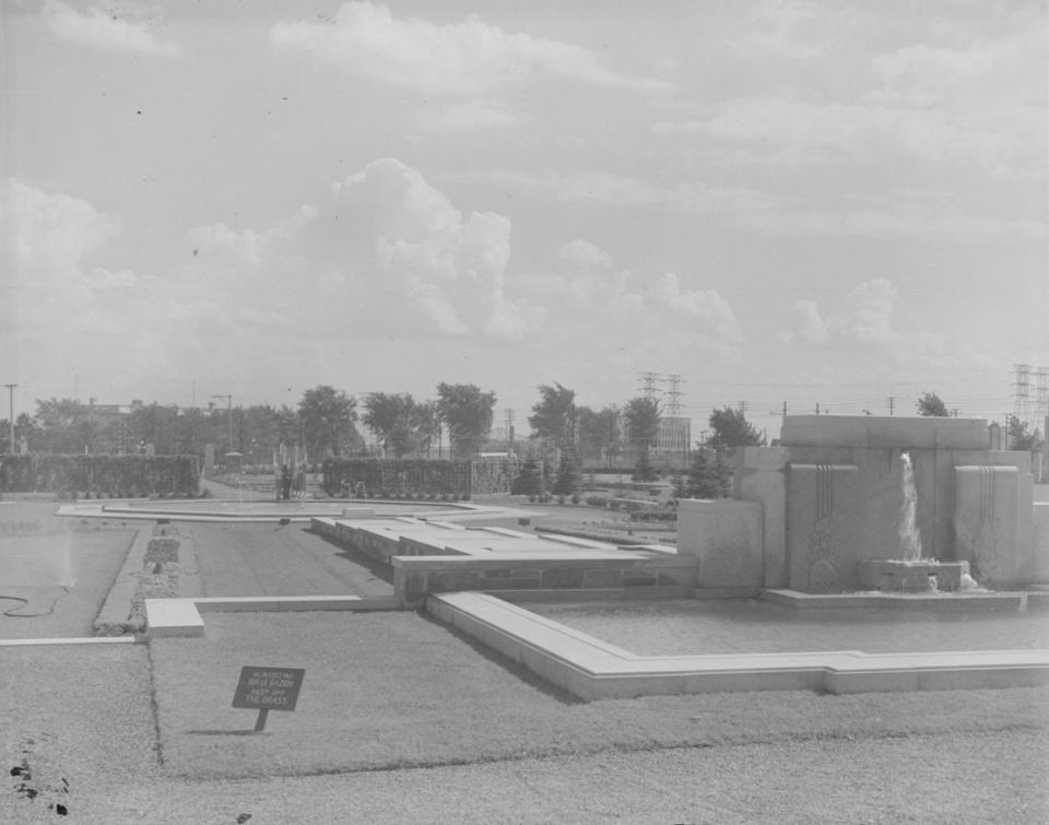 For documentary purposes the original description provided by BAnQ has been retained. Additional descriptive text may be added by Wikimedians with the wiki description = parameter, but please do not modify the other fields.